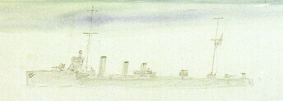 HMS 'Repulse' and a 'Medea'-class destroyer The top image is a port-broadside view of the battlecruiser 'Repulse' (1916) as she was in late 1917. The lower image seems to be one the the four 'Medea'-class destroyers. They were the only three-funnelled destroyers that had this profile. 'Melampus' (1914), 'Medea' (1915) and 'Melpomene' (1915) served in the Harwich Force during the First World War, survived it, and were broken up in 1921. The 'Medusa' (1915) was badly damaged in collision with the destroyer 'Laverock' (1913) in the North Sea on 25 March 1916 and abandoned. She sank in rough weather during the night.